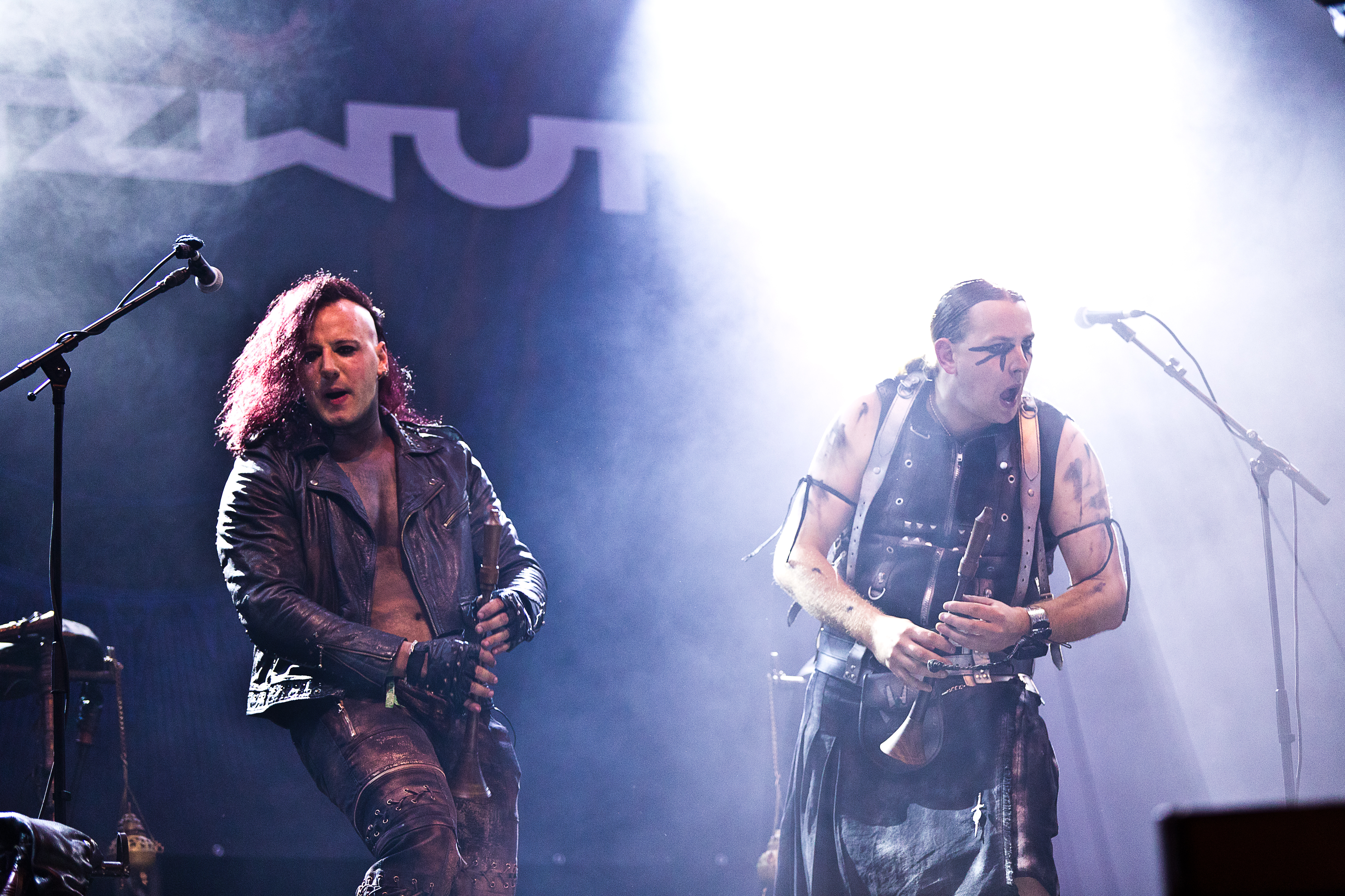 The German medieval rock band Tanzwut at the Rockharz Open Air 2015 in Ballenstedt/Germany.